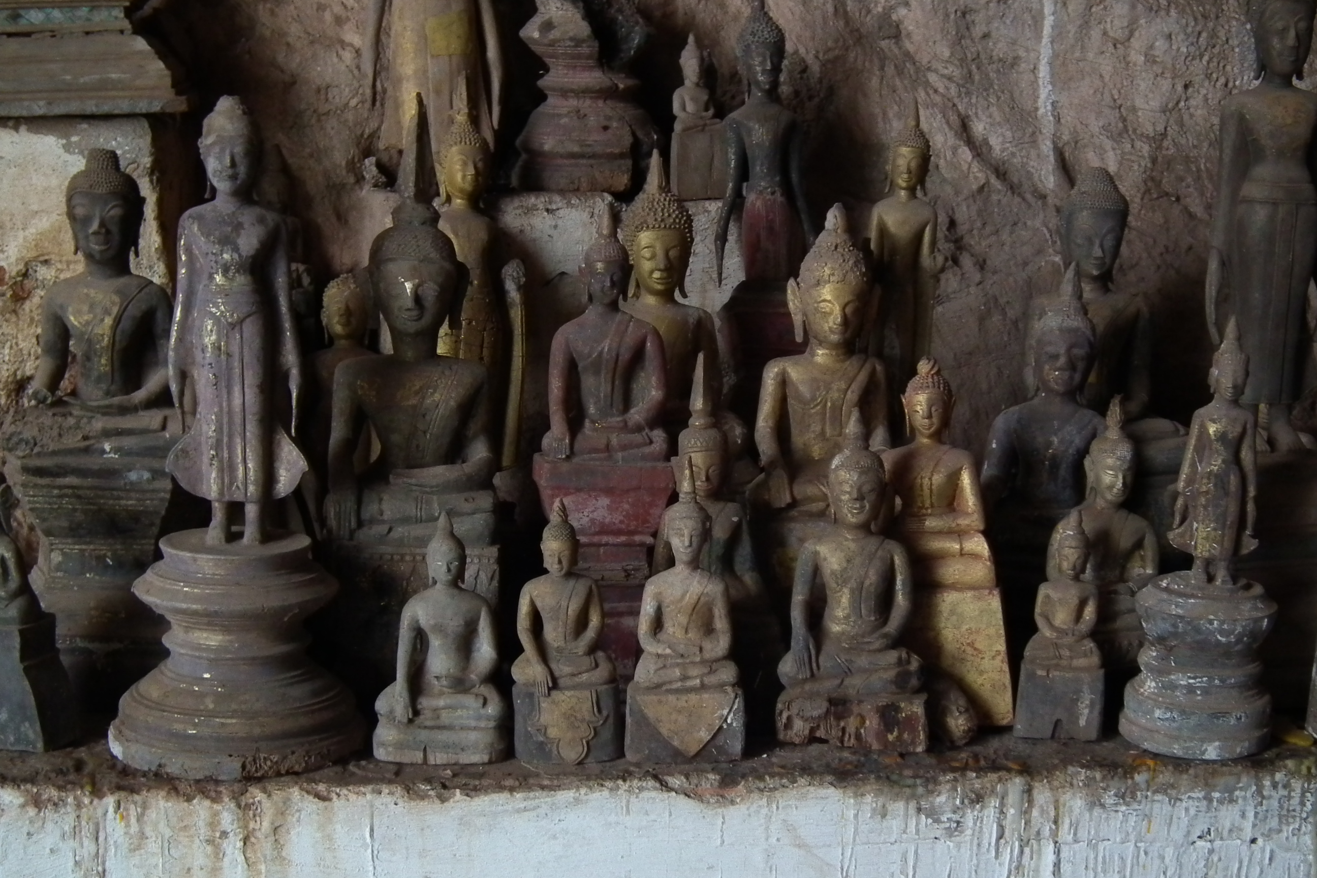 Near Pak Ou (mouth of the Ou river) the Tham Ting (lower cave) and the Tham Theung (upper cave) are caves overlooking the Mekong River 25 km from Luang Prabang, Laos. They are a group of caves on the left side of the Mekong river, about two hours upstream from the centre of Luang Prabang, and have become well known by tourists. The caves are noted for their miniature Buddha sculptures. Hundreds of very small and mostly damaged wooden Buddhist figures are laid out over the wall shelves. They take many different positions, including meditation, teaching, peace, rain, and reclining (nirvana). Pak_Ou_Caves